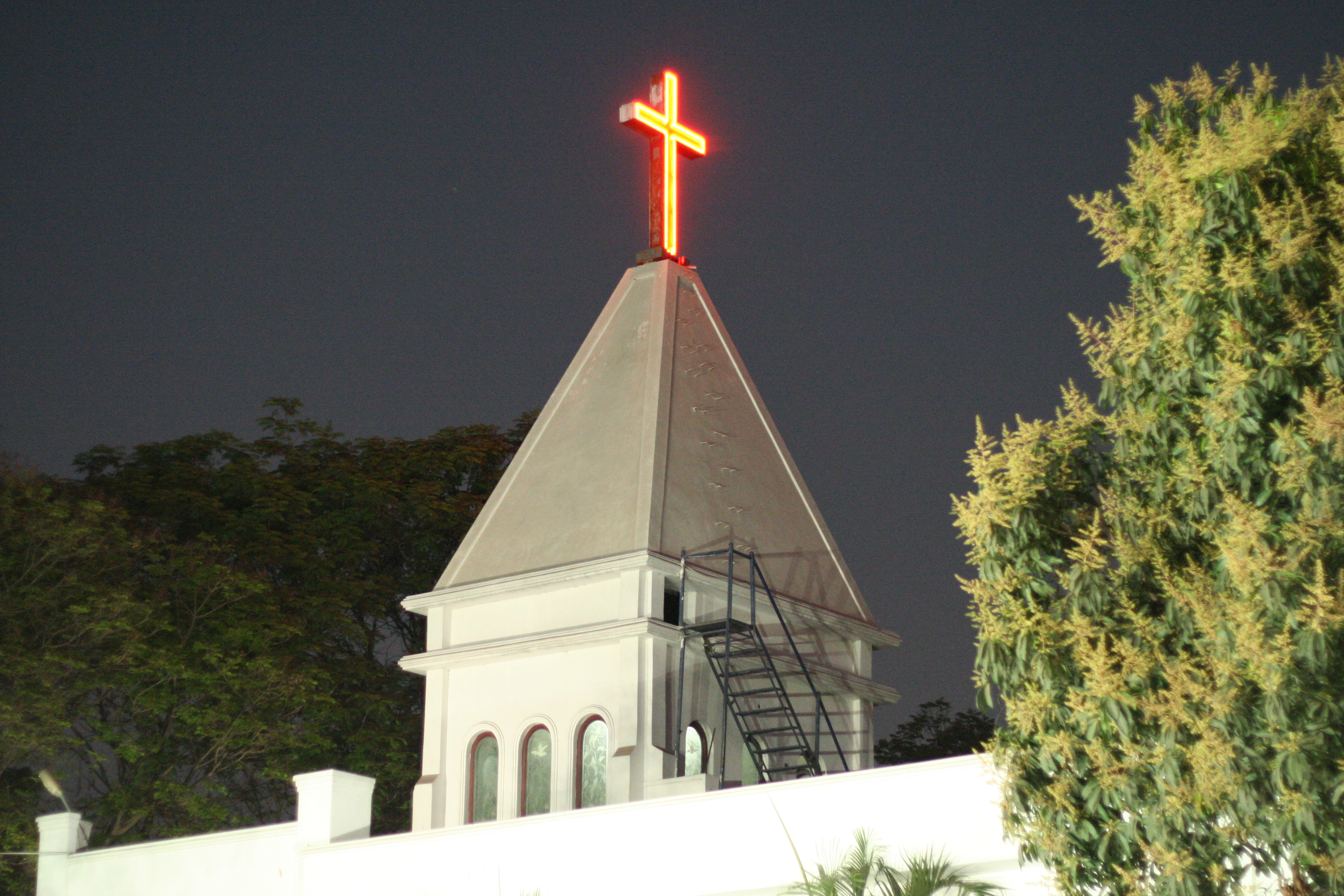 CBC tower